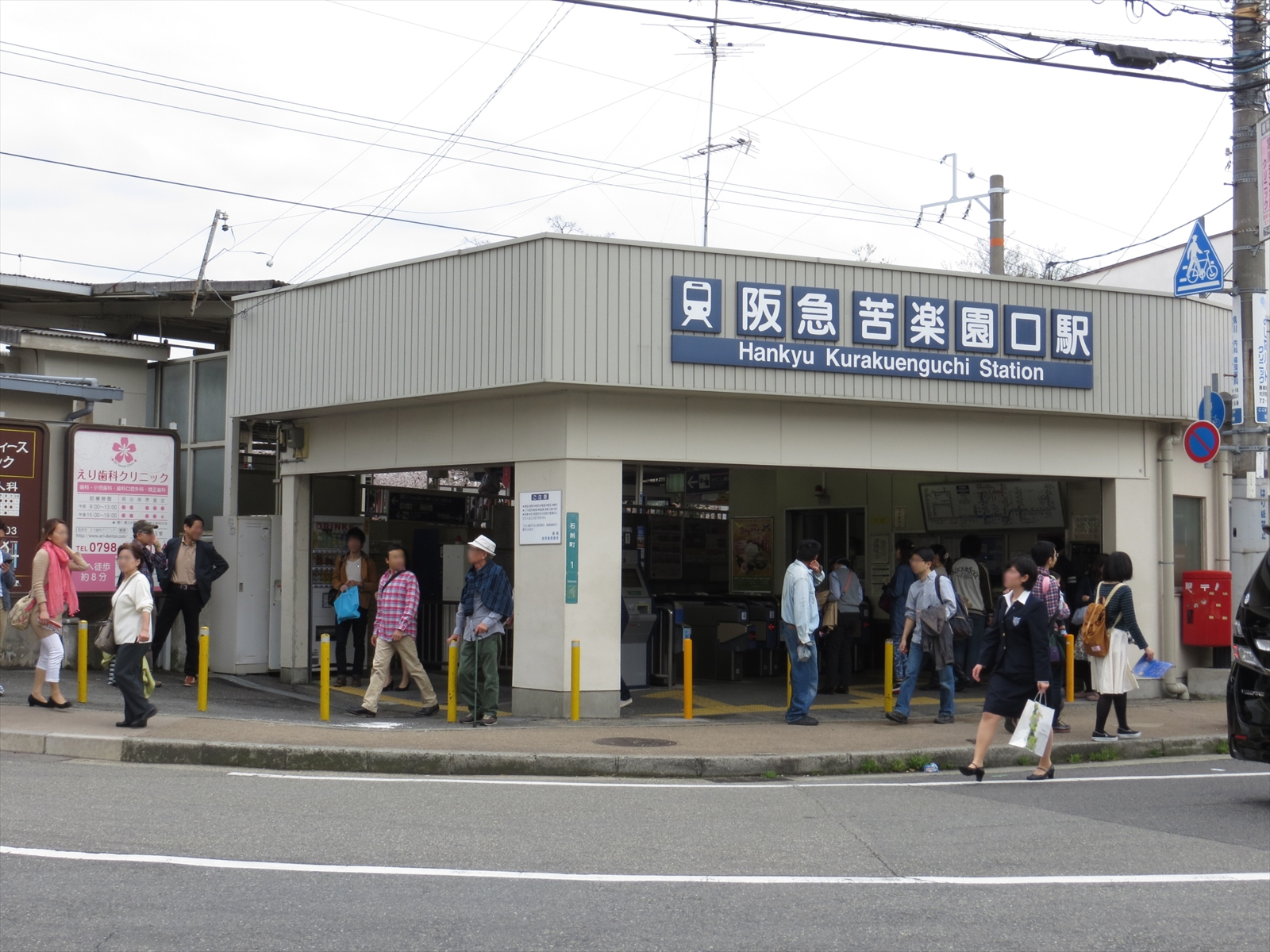 West Gate from Kurakuenguchi Station.